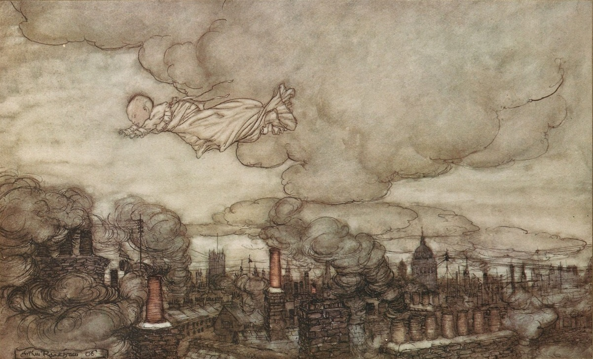 Illustration by Arthur Rackham for Peter Pan in Kensington Garden, labeled "Away he flew." 1906. Typ 905R.06.195 (A), Houghton Library, Harvard University